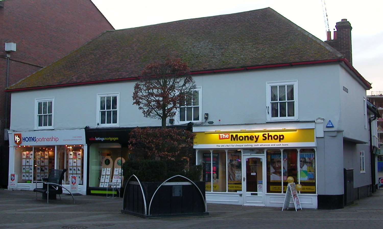 44, 46 and 48 High Street, Crawley, West Sussex, England: a 16th-century timber-framed building altered in the 18th century and converted into three shop units in the 19th century. Stuccoed brickwork on the exterior; good example of jettying on the north face (right-hand side of picture). Listed at Grade II by English Heritage (code 363354).